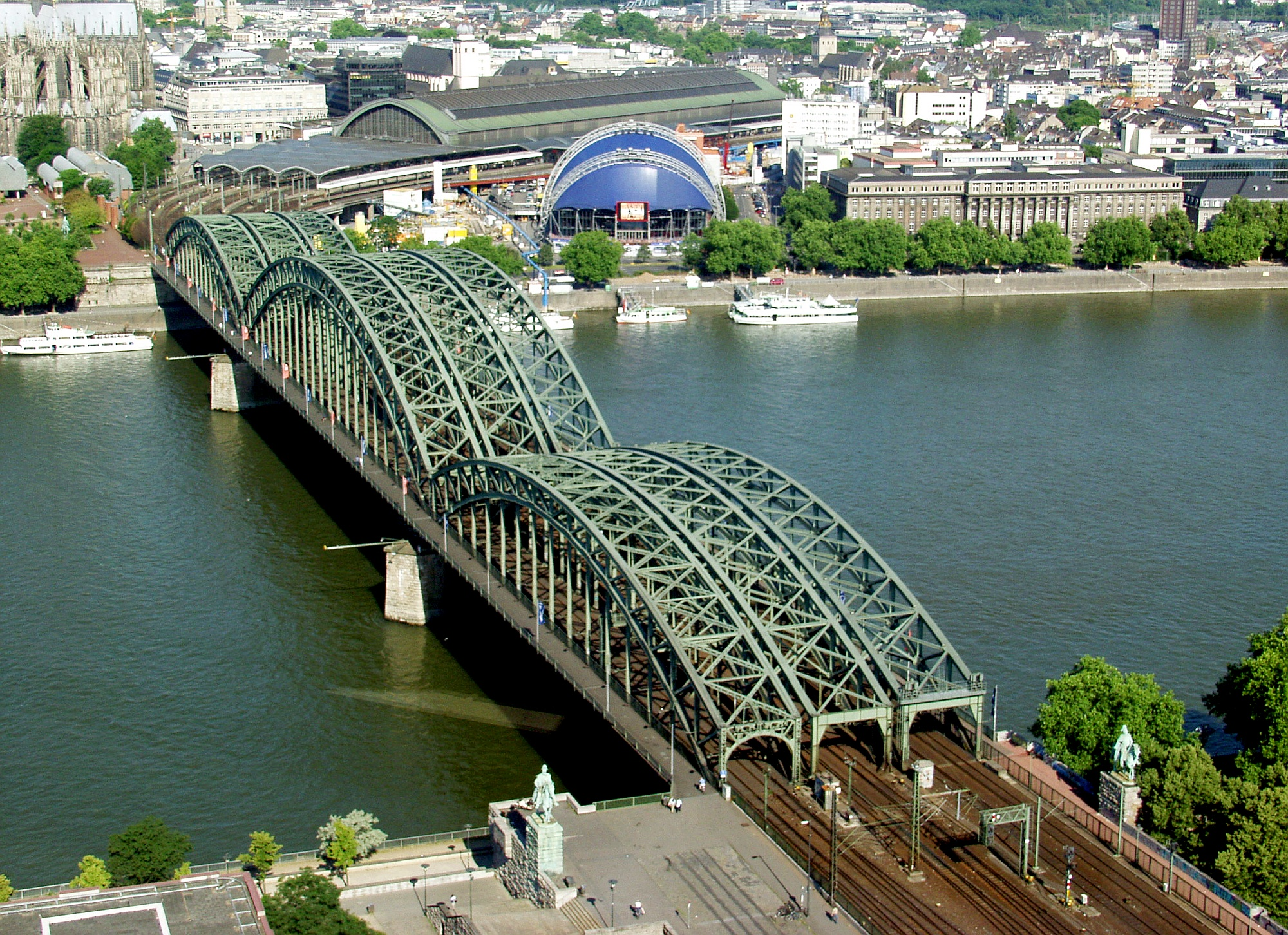 The Hohenzollernbrücke crossing the Rhein river in Cologne, Germany. On the right is the Musical Dome. This is a photograph of an architectural monument.